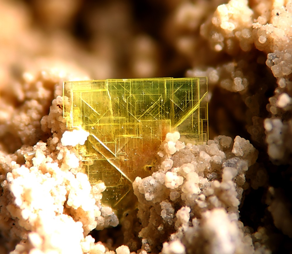 Autunite Locality: Hagendorf South Pegmatite (Cornelia Mine; Hagendorf South Open Cut), Waidhaus, Vohenstrauß, Oberpfälzer Wald, Upper Palatinate, Bavaria, Germany (Locality at ) Picture width 2 mm. Collection and photo Christian Rewitzer